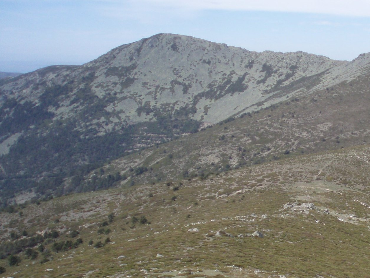 Peña del Oso seen from the Southeast, from the Montón de Trigo's summit, (Guadarrama mountain range, central Spain).